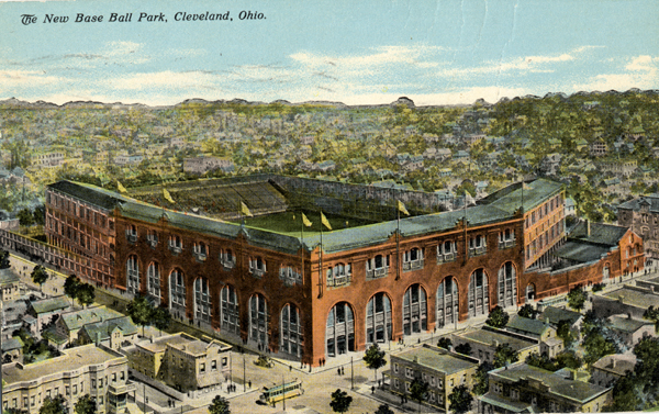 Postcard of League Park in Cleveland, Ohio